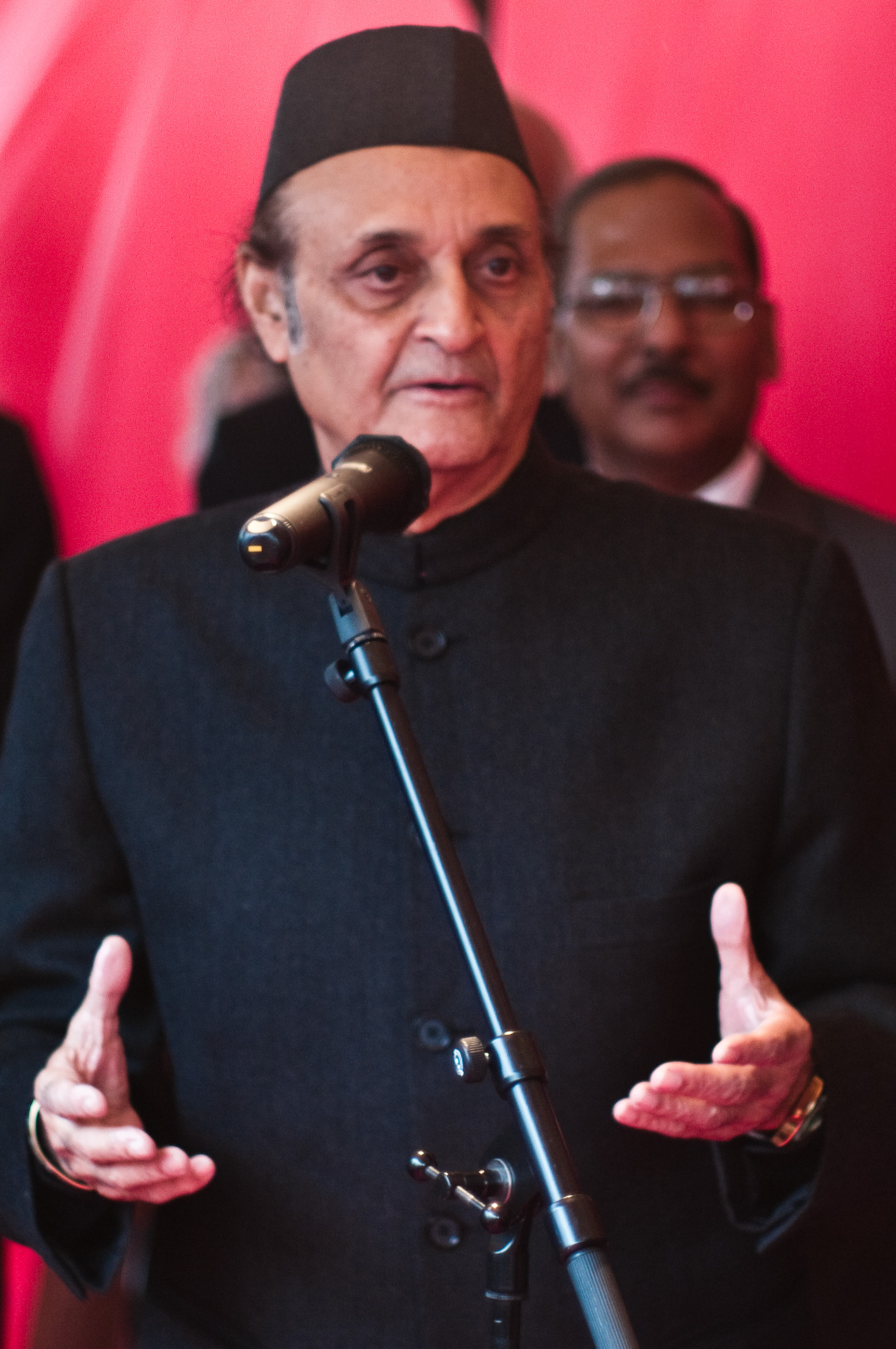 Dr Karan Singh giving a speech during the unveiling of Sri Aurobindo statue at UNESCO headquarters in Paris (France), 16th of september 2009